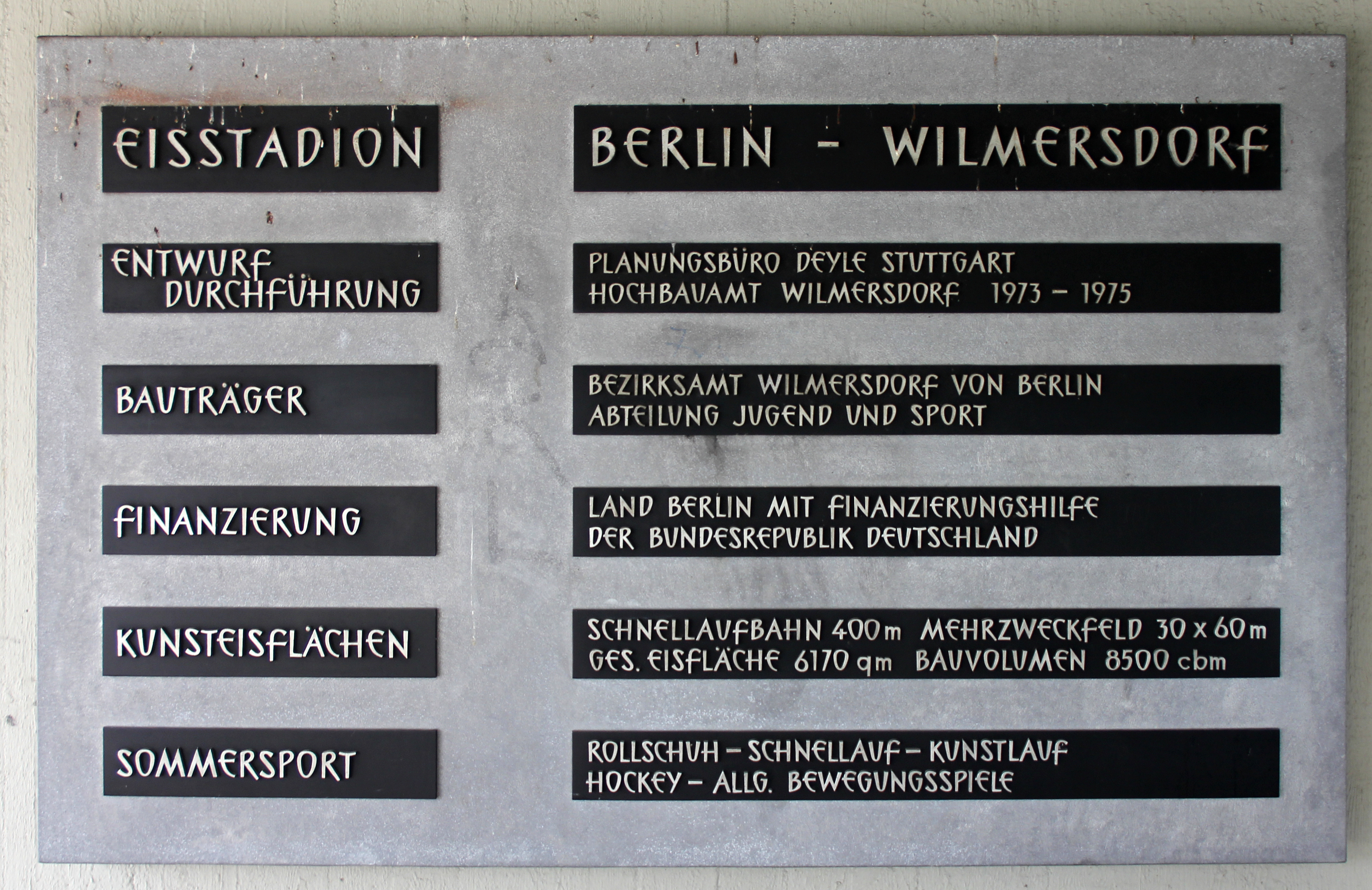 Memorial plaque, Horst-Dohm-Eisstadion, Fritz-Wildung-Straße 9, Berlin-Schmargendorf, Germany